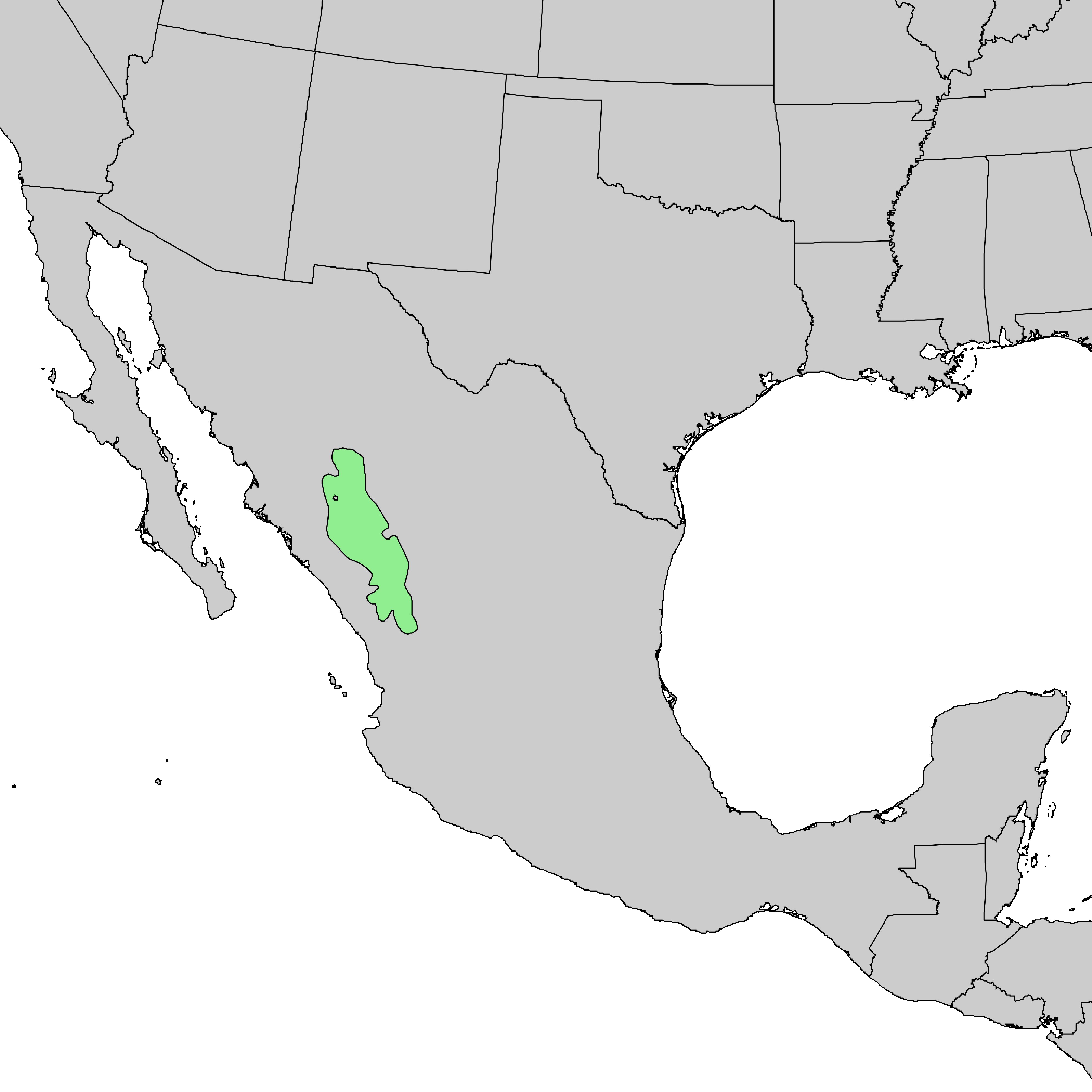 Natural distribution map for Pinus cooperi